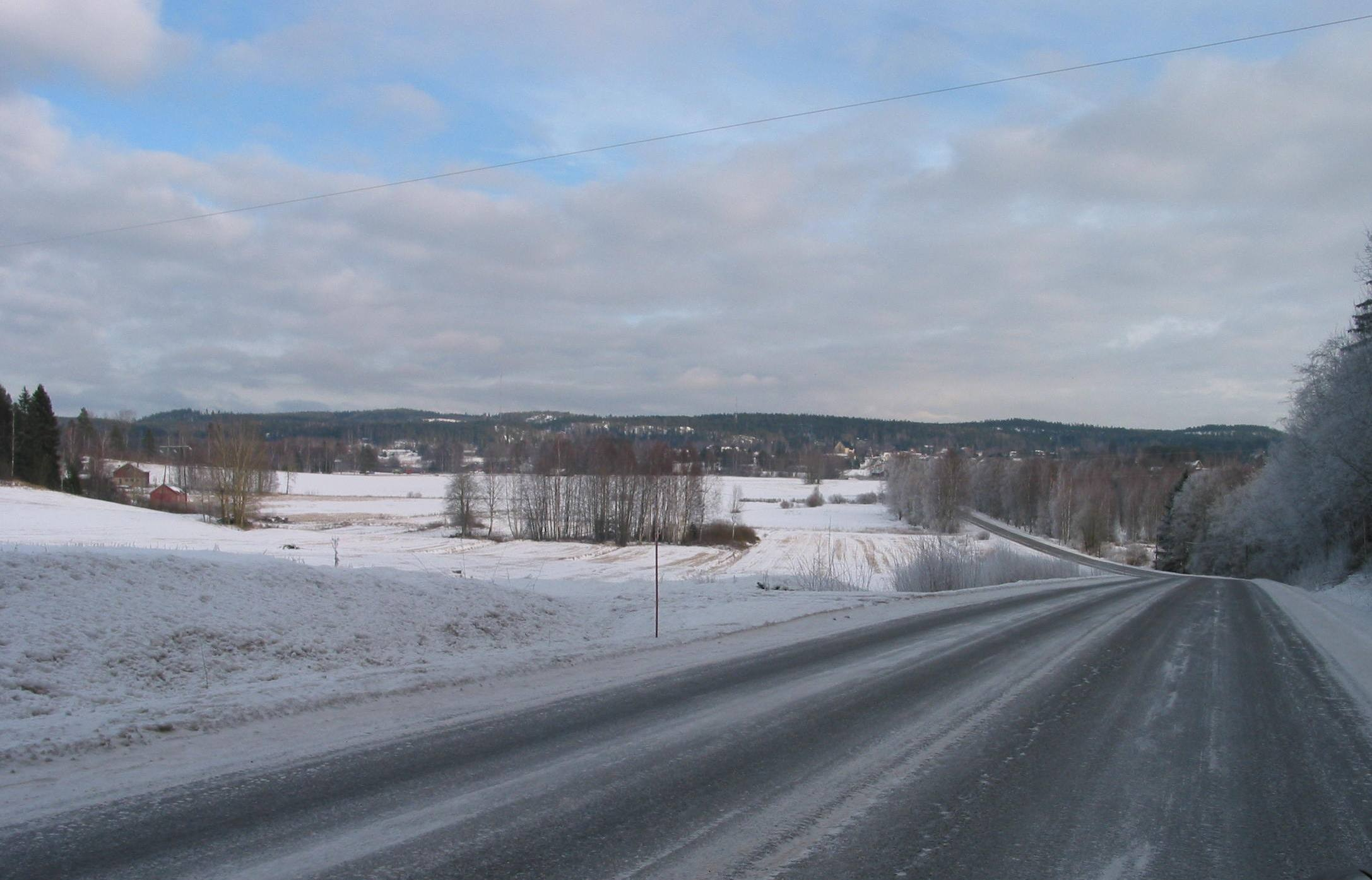 Pusula Village